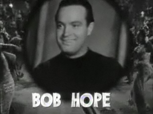 Cropped screenshot of Bob Hope from the trailer for the film Road to Singapore.